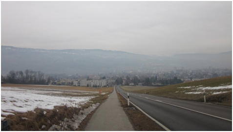 View to the city of Biel and the Jura Hills